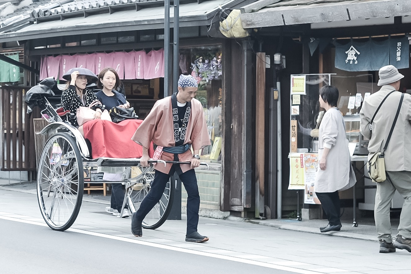 Jinrikisha (rickshaw) plying tourists around Little Edo in Kawagoe, Saitama, Japan.